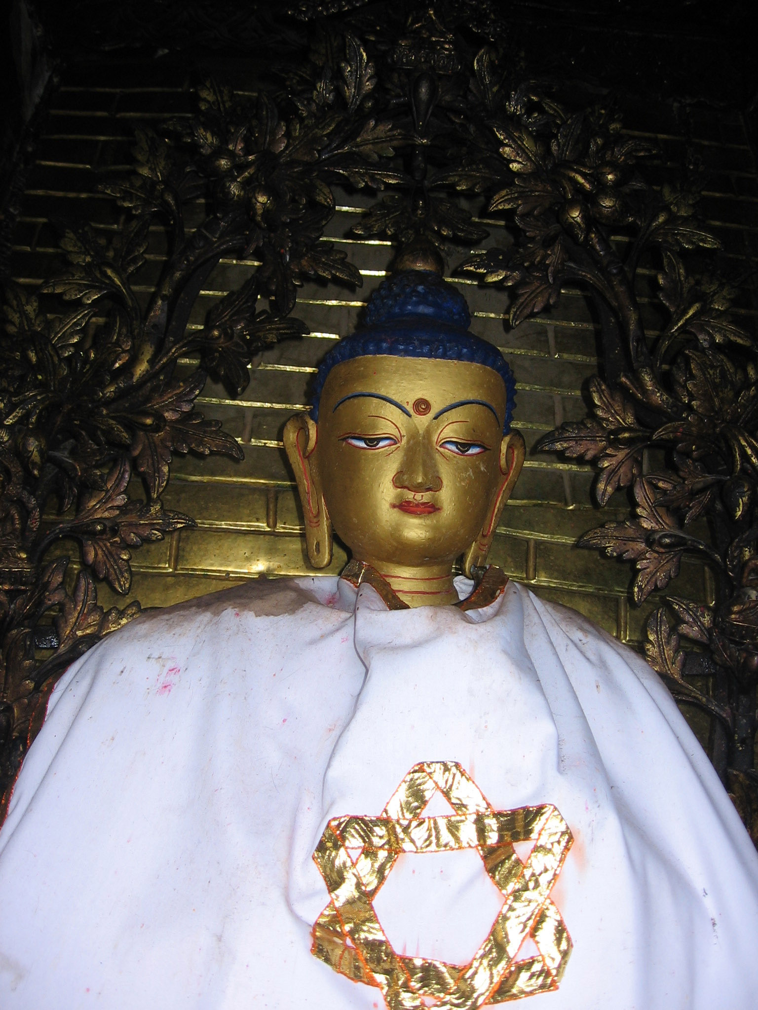 Gilded statue of Vairochana Buddha installed in a shrine on the east side of Swayambhu Stupa, Kathmandu, Nepal.